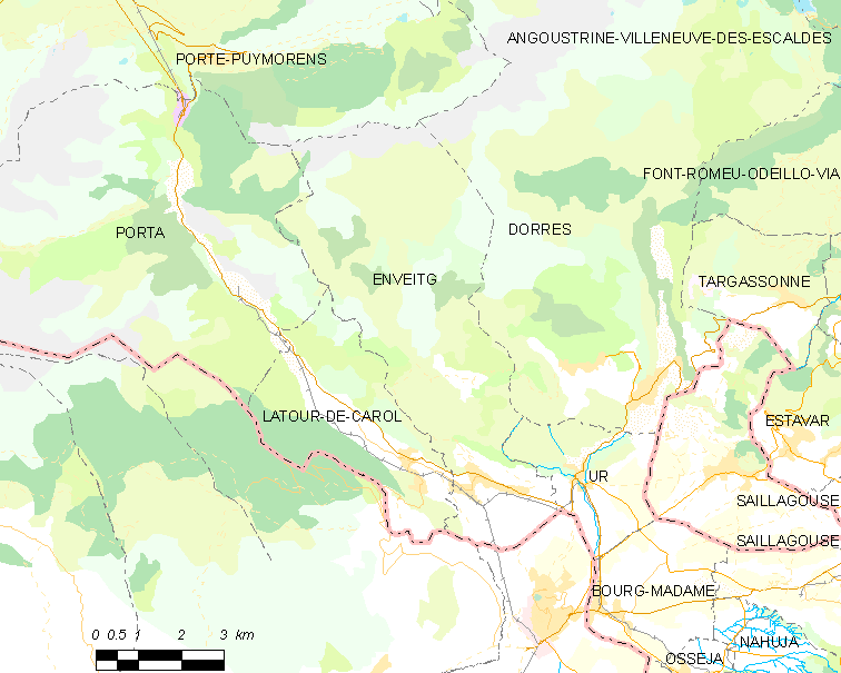 Map of French municipality